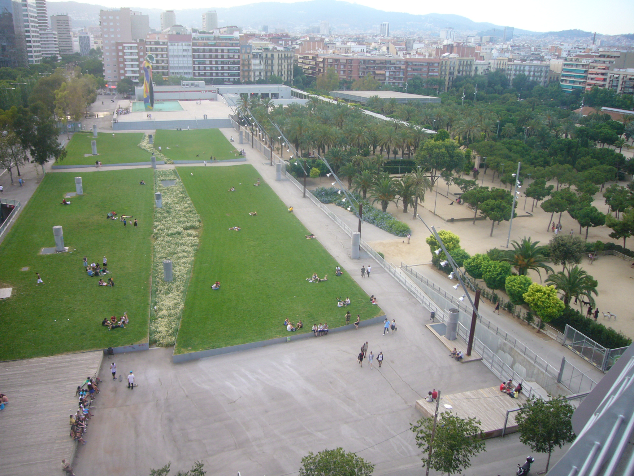 Parc de Joan Miró, Barcelona